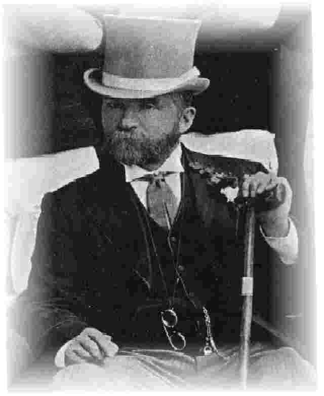 From the school Archives; supplied by MM Marwick - school archivist of Maritzburg College